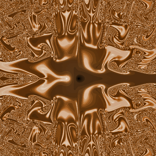 Topographical (moduli) image of an infinite composition of complex functions.